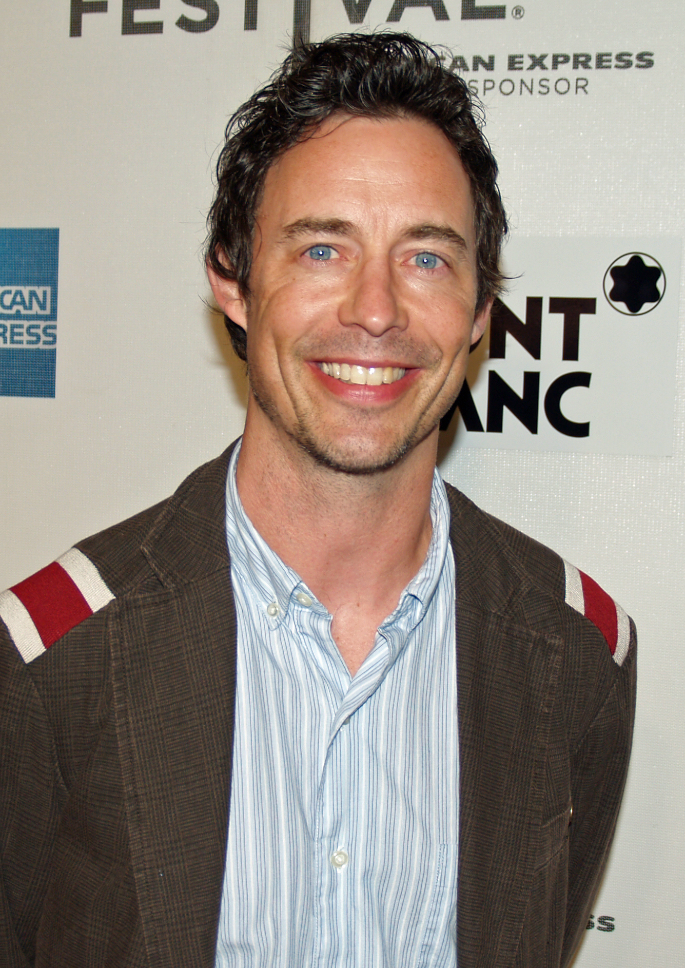 Tom Cavanagh at the premiere of War, Inc. at the 2008 Tribeca Film Festival.